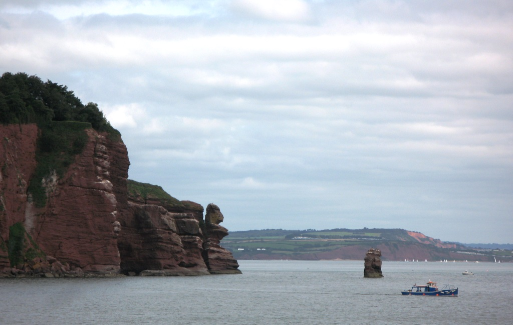 The weathered rocks and stack that form the Parson and Clerk rocks at Holicombe, north of Teignmouth in Devon, England.